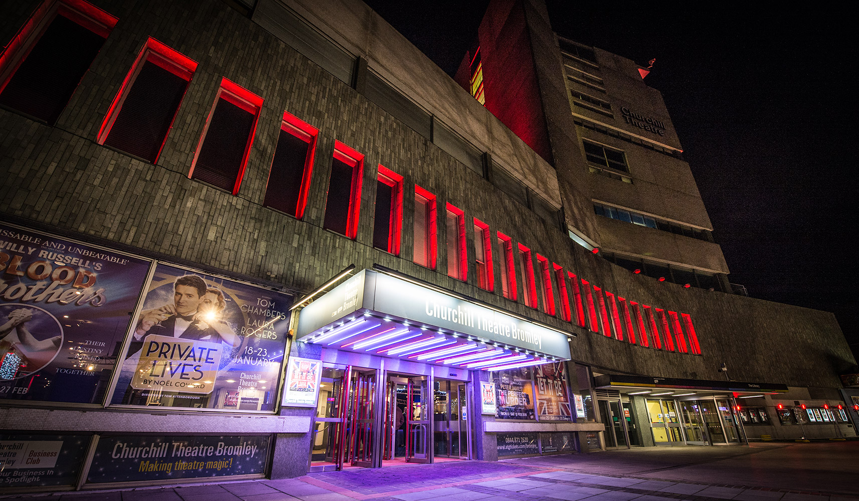 Outside the main box office entrance to the Churchill Theatre in Bromley, Kent taken at night.